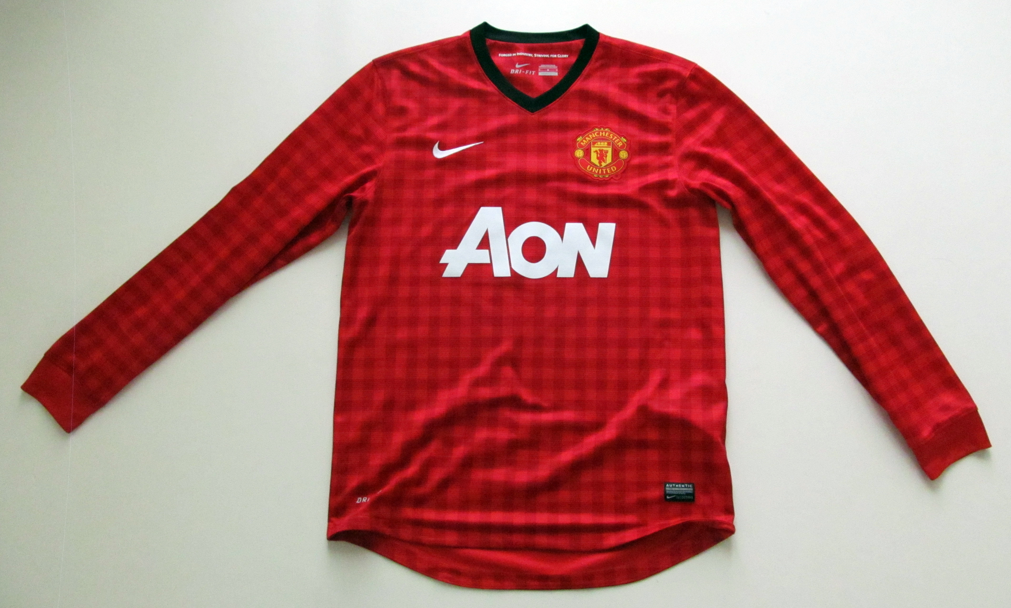 The Manchester United home jersey for the 2012/13 season